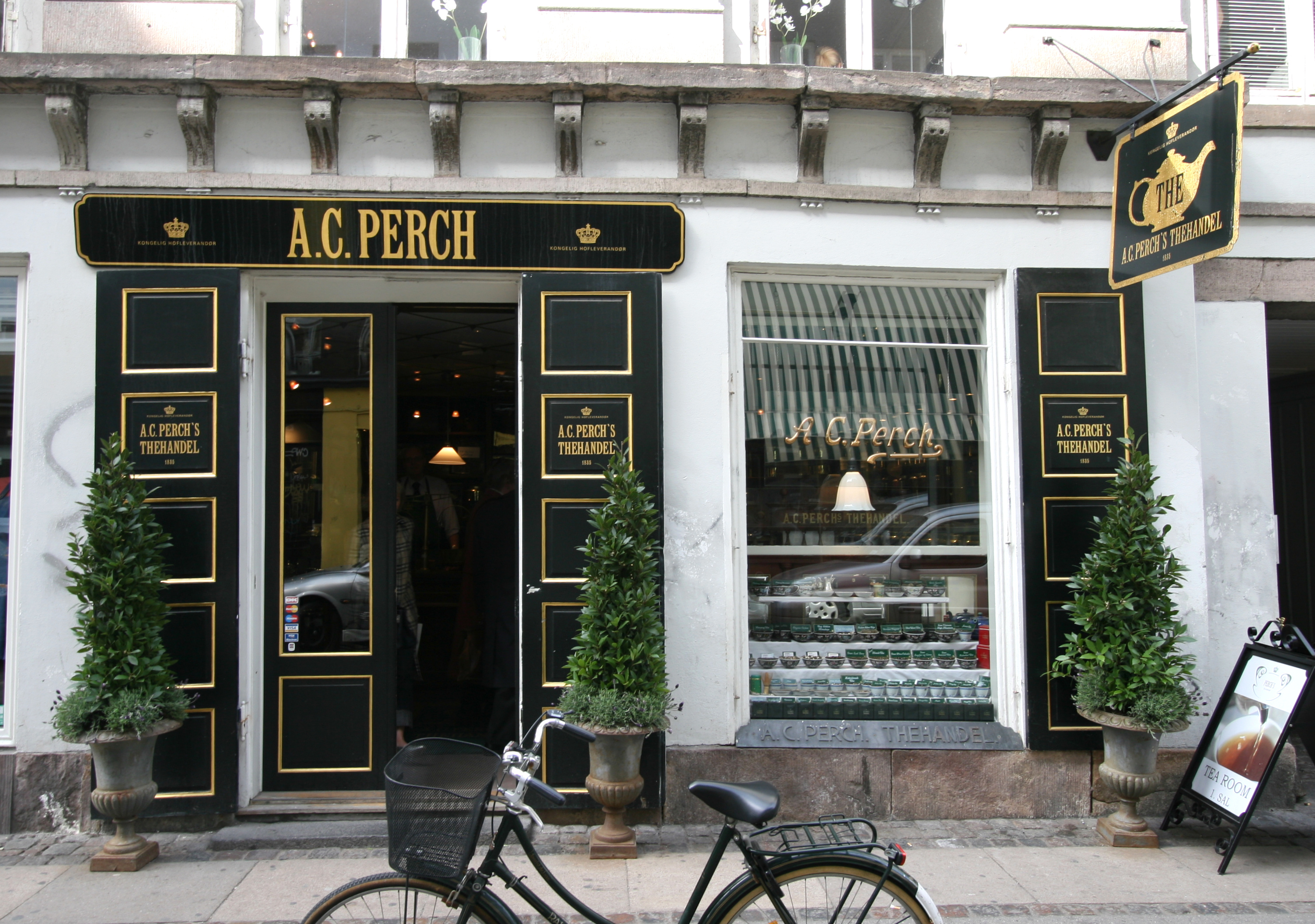 A. C. Perch's famous Teashop in Copenhagen. Established 1835.